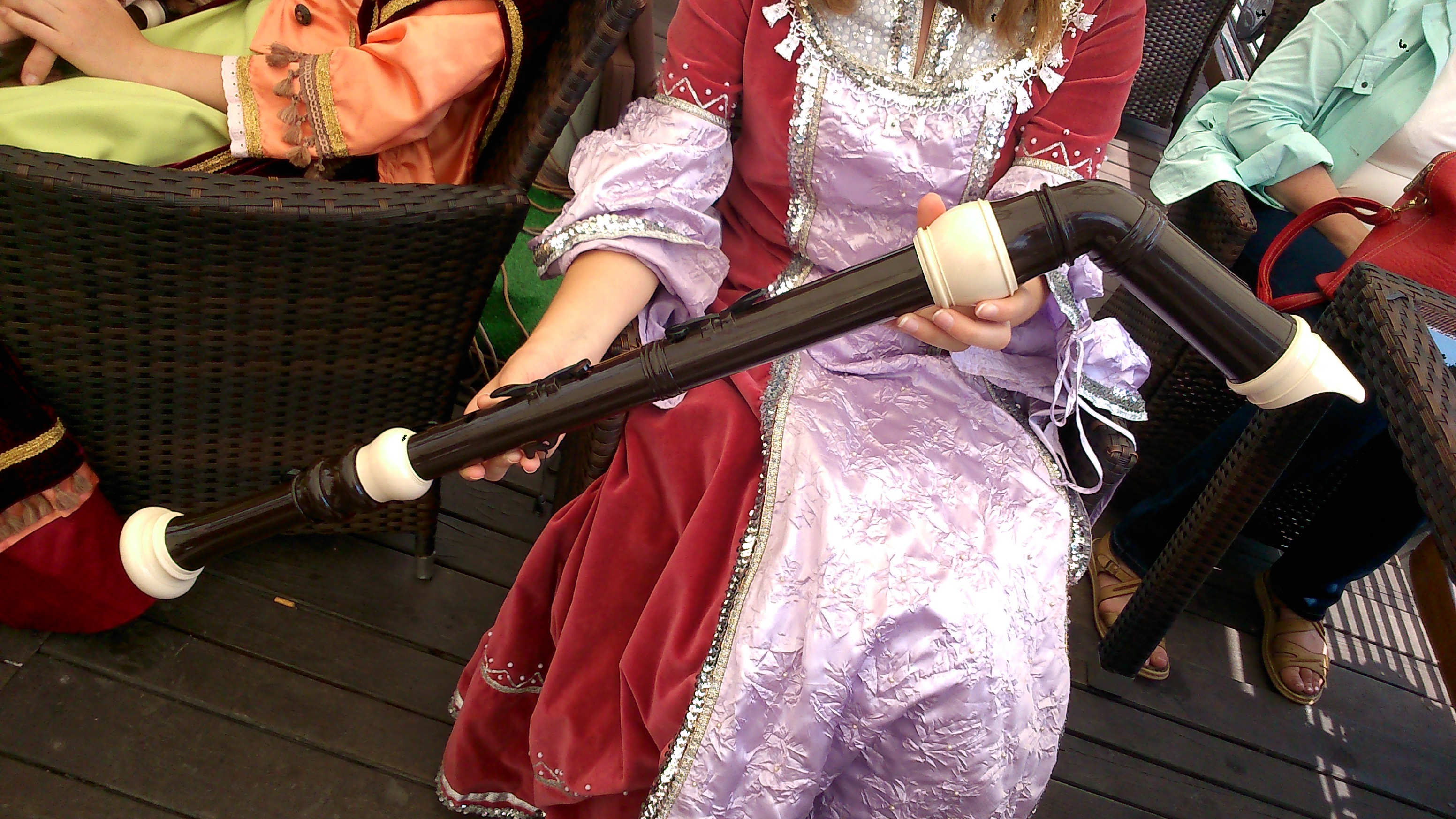 Bass flute.